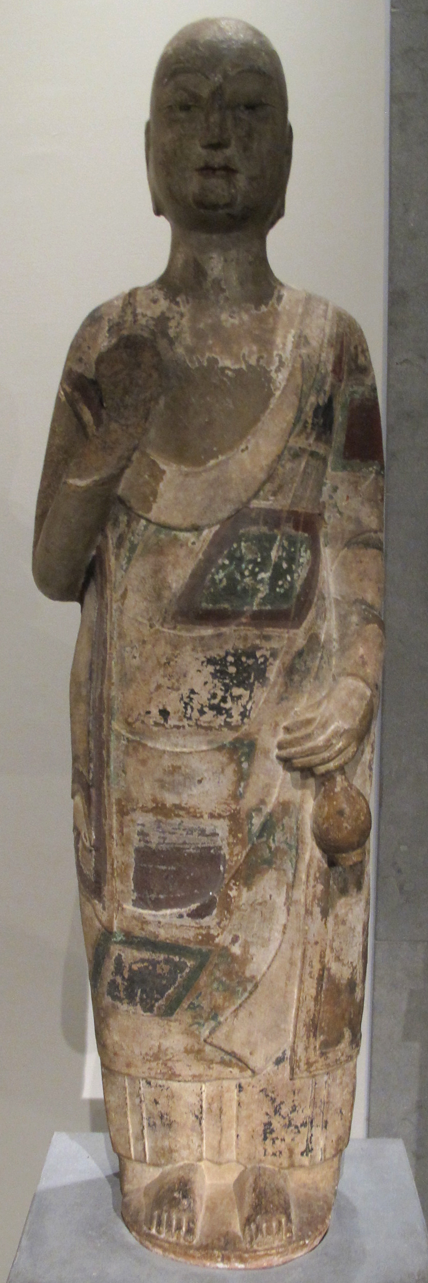 Ananda, disciple of Shakyamuni Buddha. North China, Hebei Province (?). Sui Dynasty (581-618), late 6th or early 7th century. Marble with traces of polychrome. Guimet Museum. Purchase 1937, AA 191. This figure of the young disciple, known for his gentleness, his devotion and his intelligence or his perfect memory of the doctrine, is also that of the one who pleaded for the acceptance of women in the community. This form of column-statue, like its "pendant" Mahakashyapa, had to frame an image of Shakyamuni. : Summarized reformulation of the cartel available in the museum room.